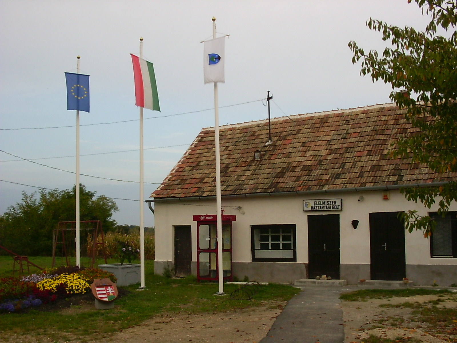 Csér, shop at the village center